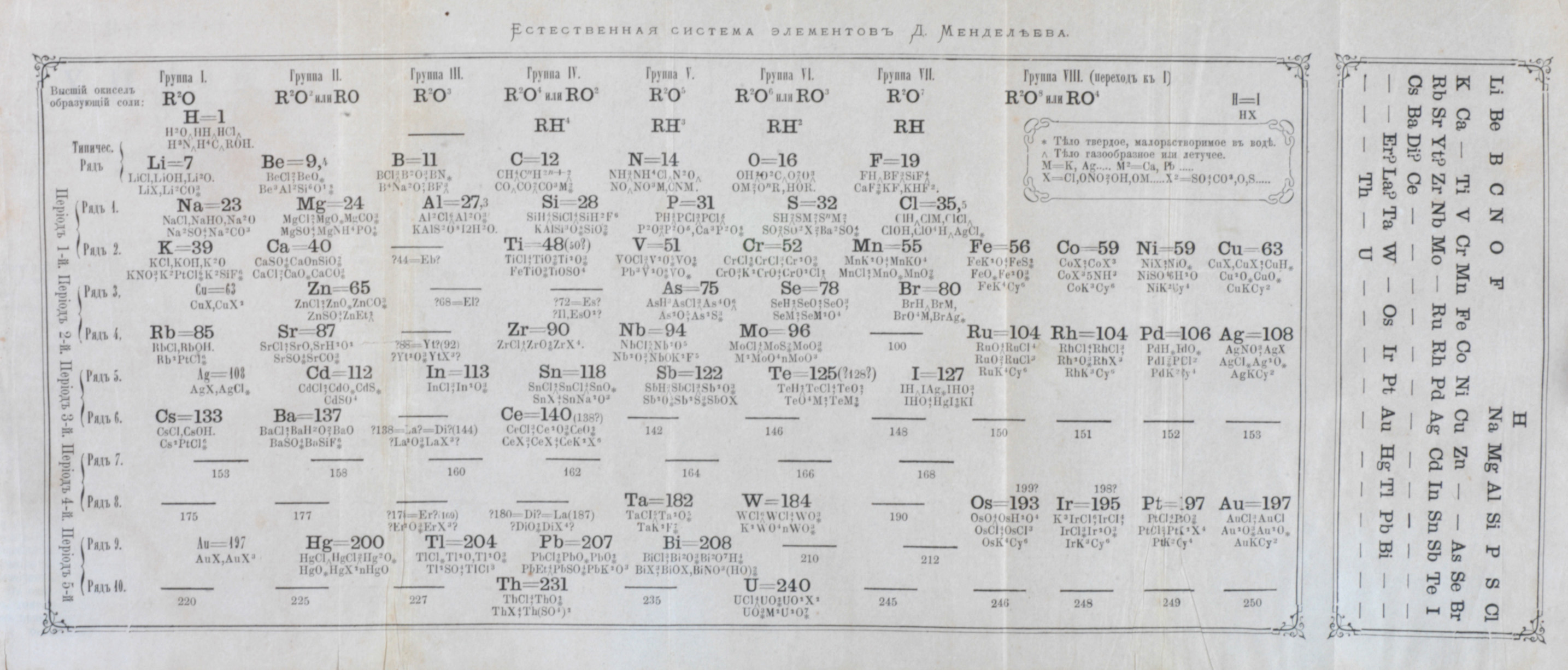 Illustration showing the periodic table from Osnovy khimīi by Dmitry Ivanovich Mendeleyev, 1834-1907. S.-Peterburg : Tip. t-va "Obshchestvenna︠i︡a polʹza, 1869-1871.